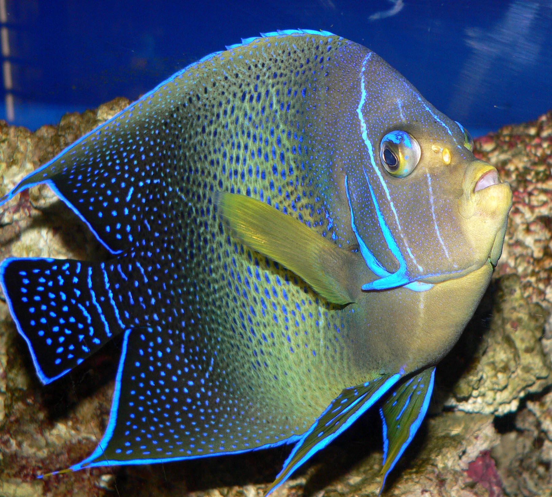 Photo of Pomacanthus semicirculatus (semicircle angelfish) at the Steinhart Aquarium in San Francisco